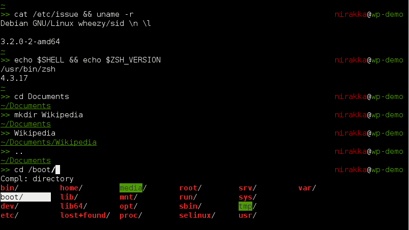 Screenshot of a zsh session.